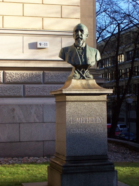 Leo Mechelin bust at the front of the House of the Estates, Helsinki, Finland.